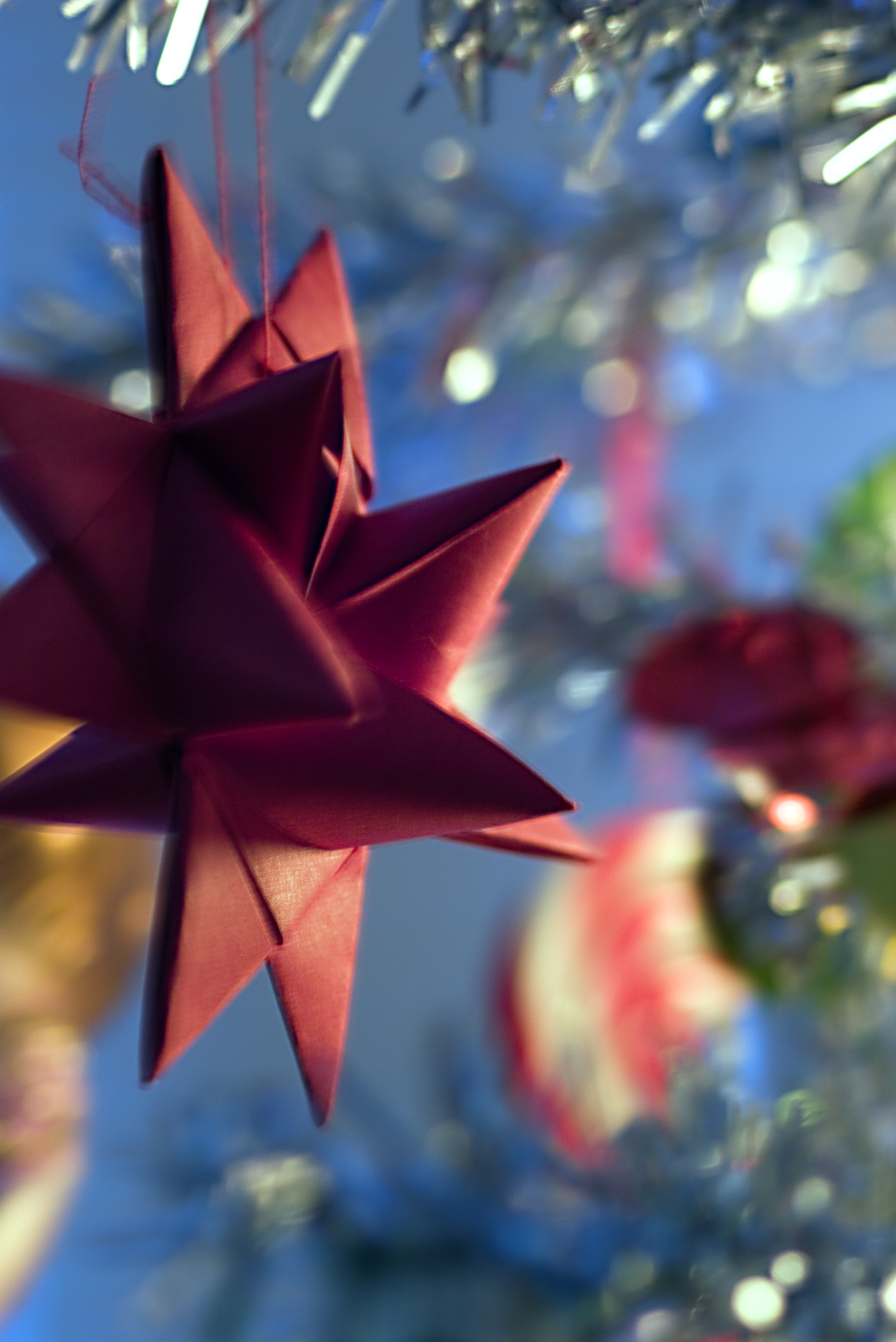 on a christmas tree